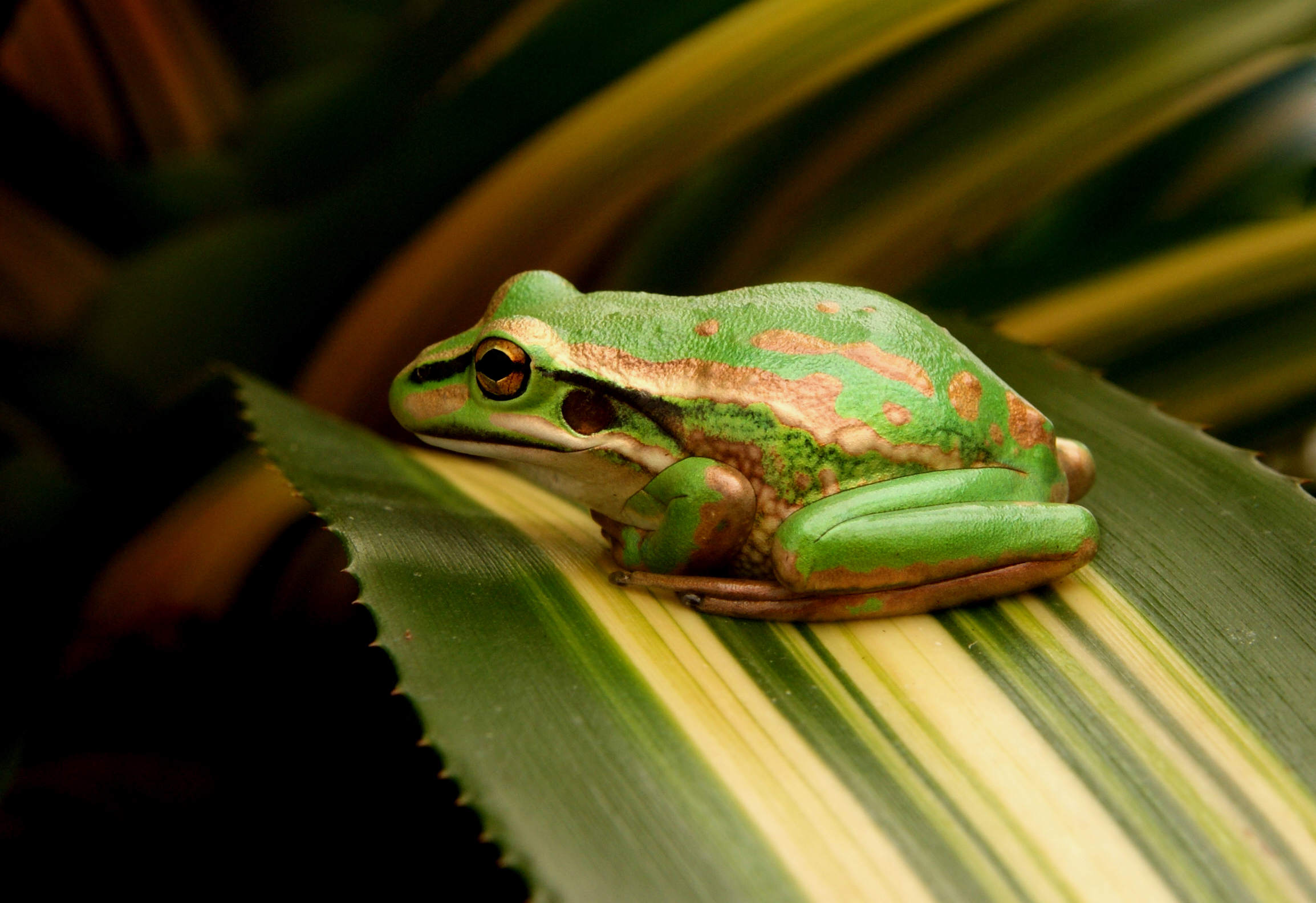 The Green and golden bell frog, Ranoidea aurea, is a magnificent looking frog and can often be mistaken for a garden ornament! In the late 1860s several consignments of these frogs were received from Sydney and released by the Auckland Acclimisation Society. There have been several attempts to establish populations of this species in the South Island, but it appears that the climatic conditions are not favourable and the species is restricted to the upper half of the North Island (north of Gisborne). They occur around the same ponds as the Southern Bell frog and may interbreed